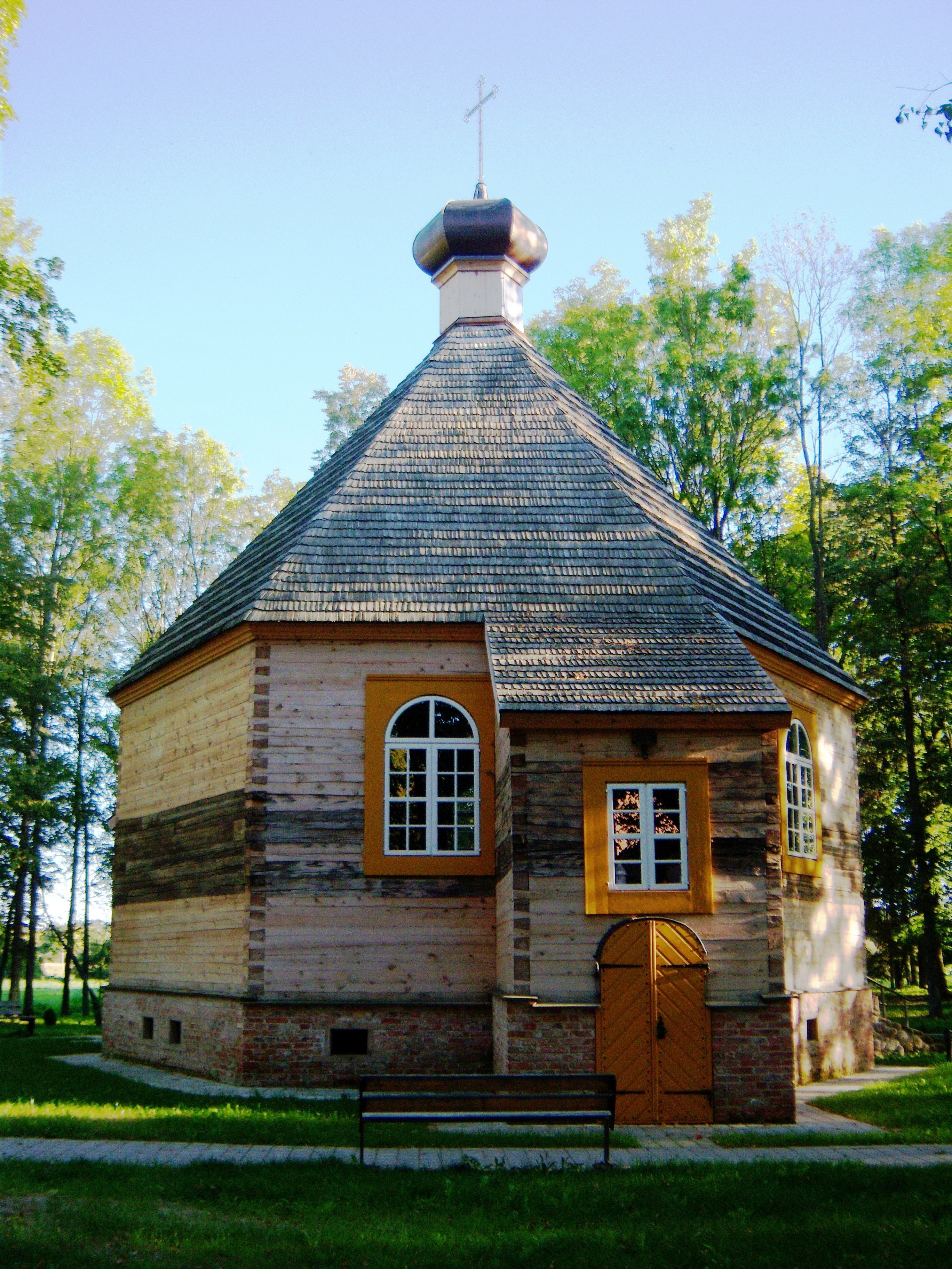 Chapel in Antanavas, Kazlų Rūda municipality, Lithuania